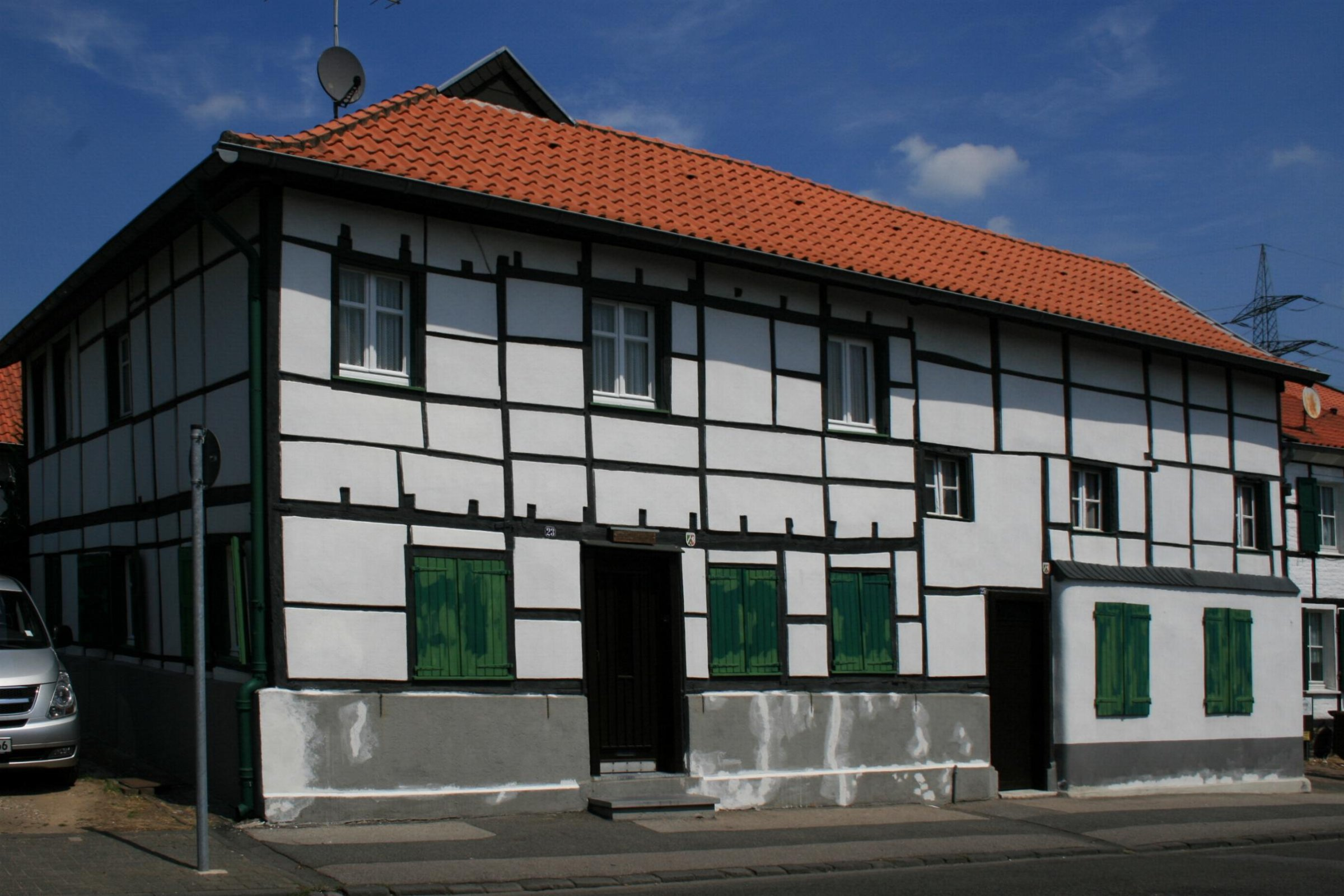 Cultural heritage monument No. U 003 in Mönchengladbach